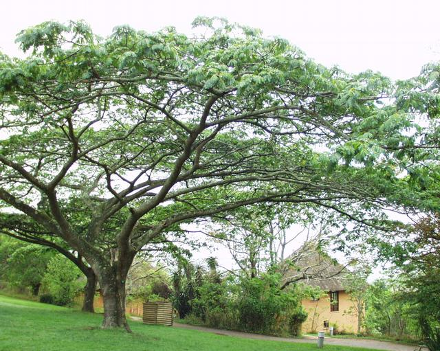 (en) Albizia adianthifolia, a photography originating of the internet site The accord of the autor, H. Brisse, is here. (fr) Albizia adianthifolia, une photographie issue du site internet L'accord de l'auteur, H. Brisse, se situe ici.